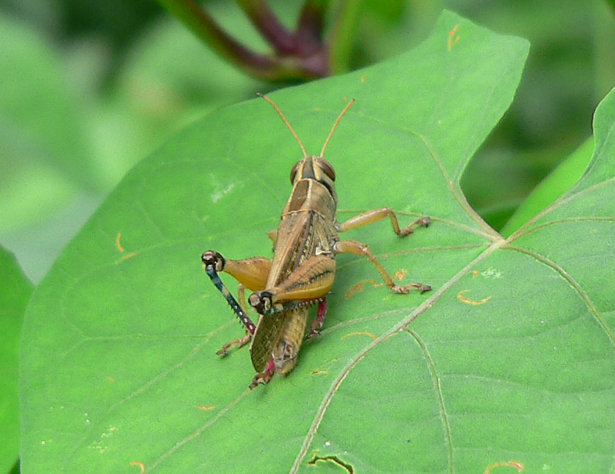 Male Eyprepocnemis plorans grasshopper photographed by Christiaan Kooyman on 10 June 2005 at the research farm of the International Institute of Tropical Agriculture, Mbalmayo, Cameroon.